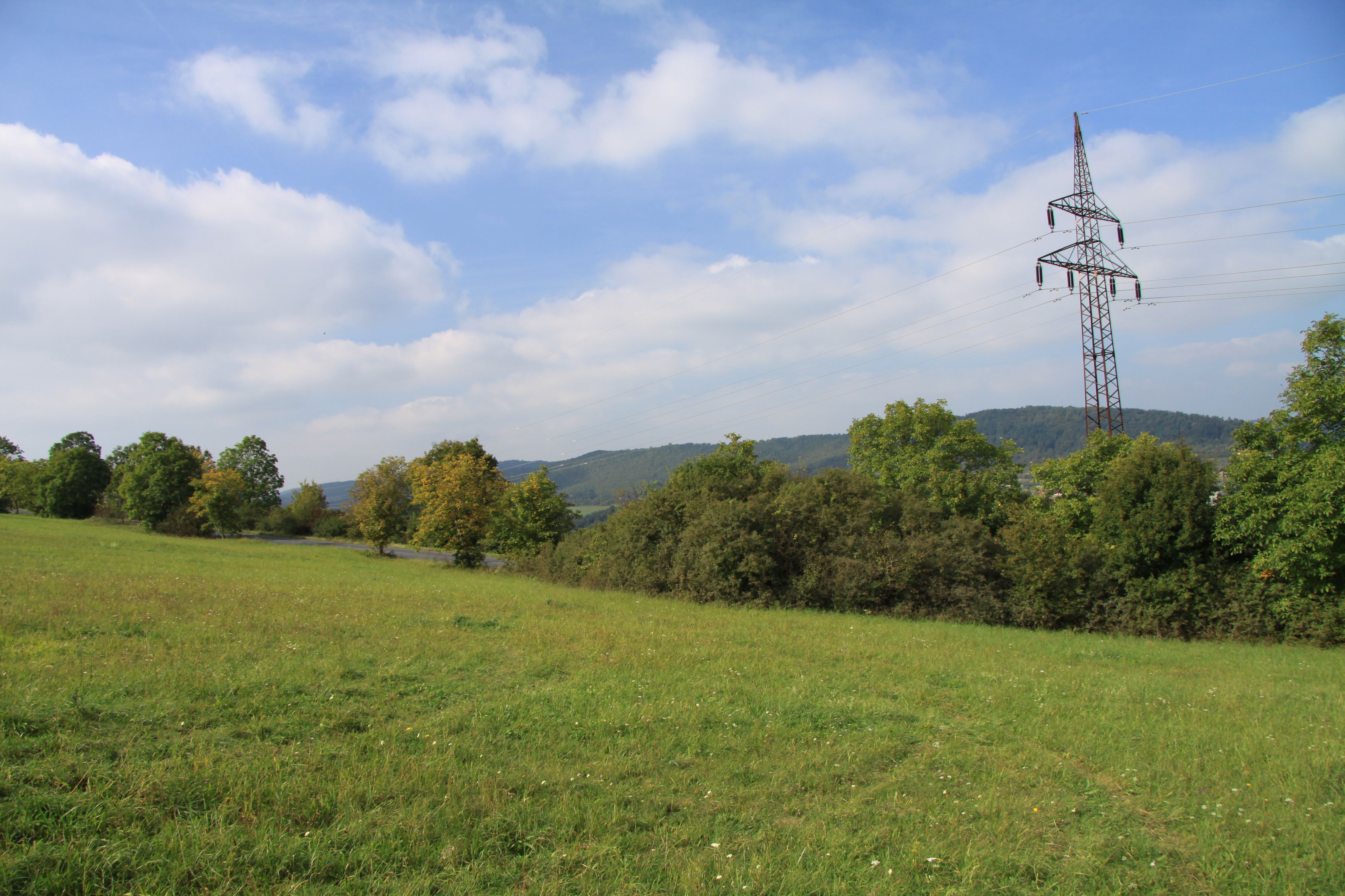 Natural monument Syslí louky u Loděnice near Loděnice village, Beroun District, Czech Republic Project: Chráněná území.